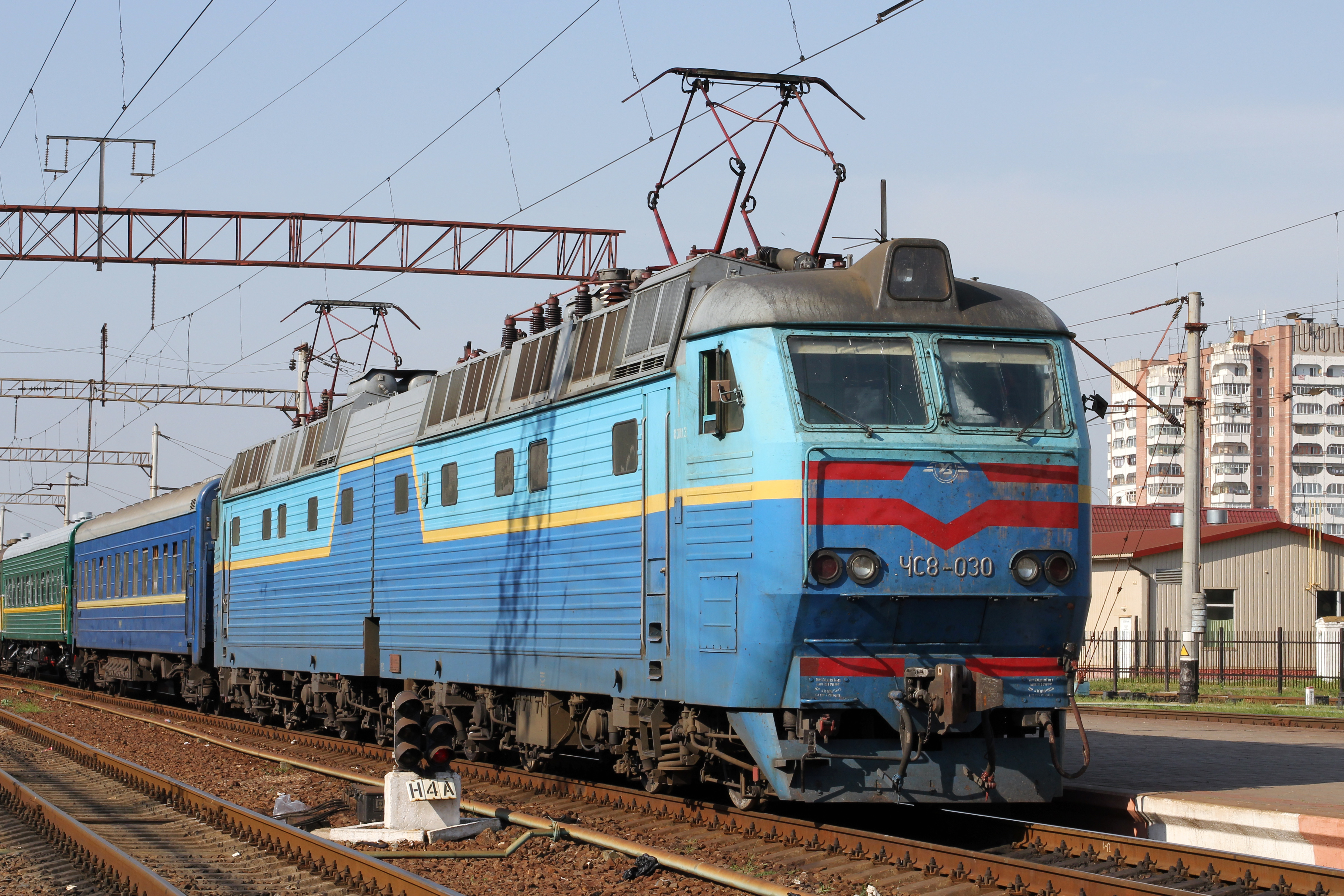 Electric locomotive Škoda ChS8-030 in Vinnitsa railway station. This locomotive has been made in 1987.